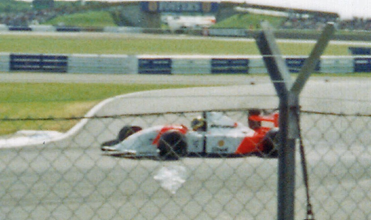 Senna's McLaren at Silverstone 1993, rounding Luffield corner. This was his last British Grand Prix. Photo taken in Wetley's Wood, England